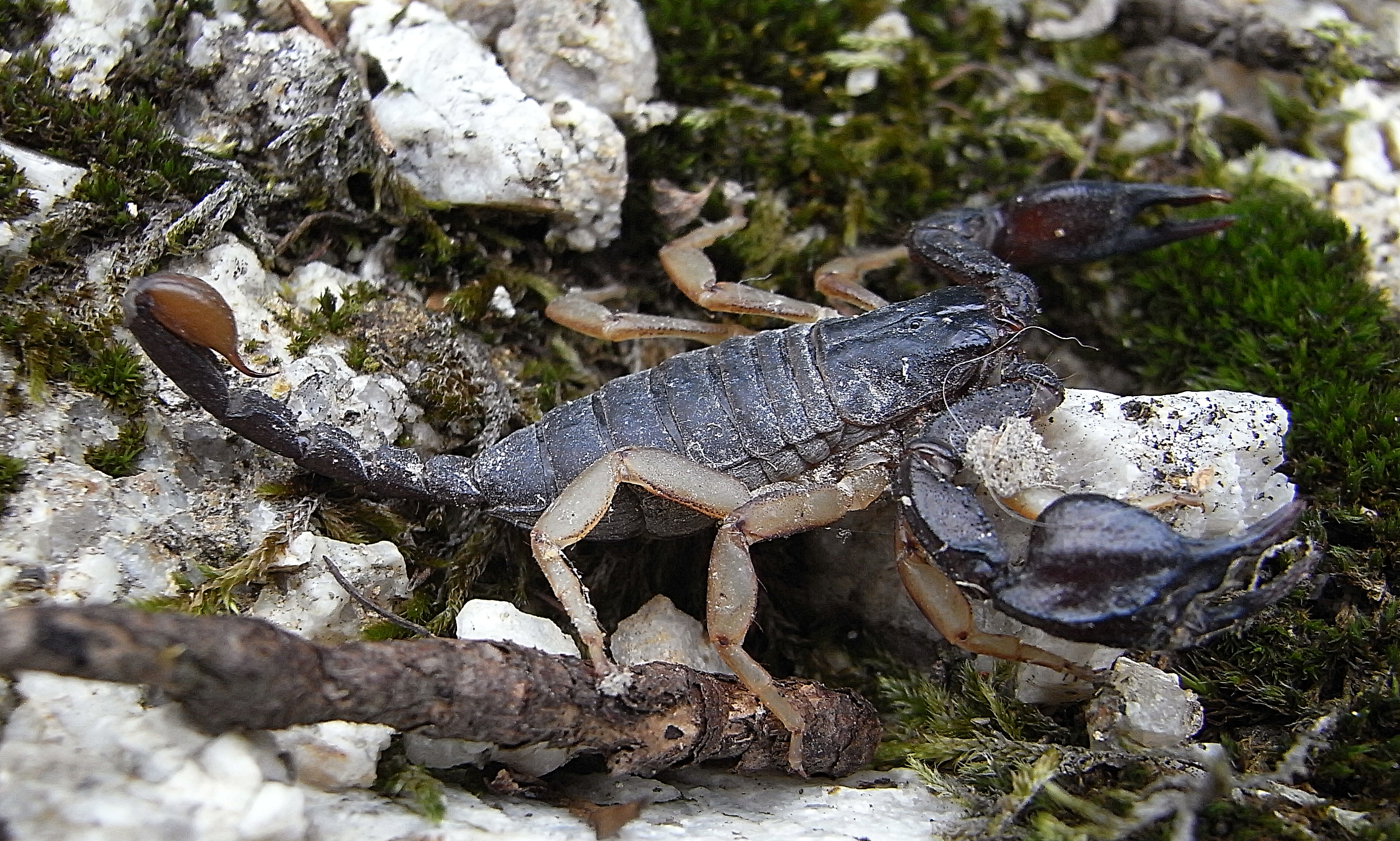 Euscorpius flavicaudis from Southern France, on the wall of an old house in Lasalle Ricoh R8